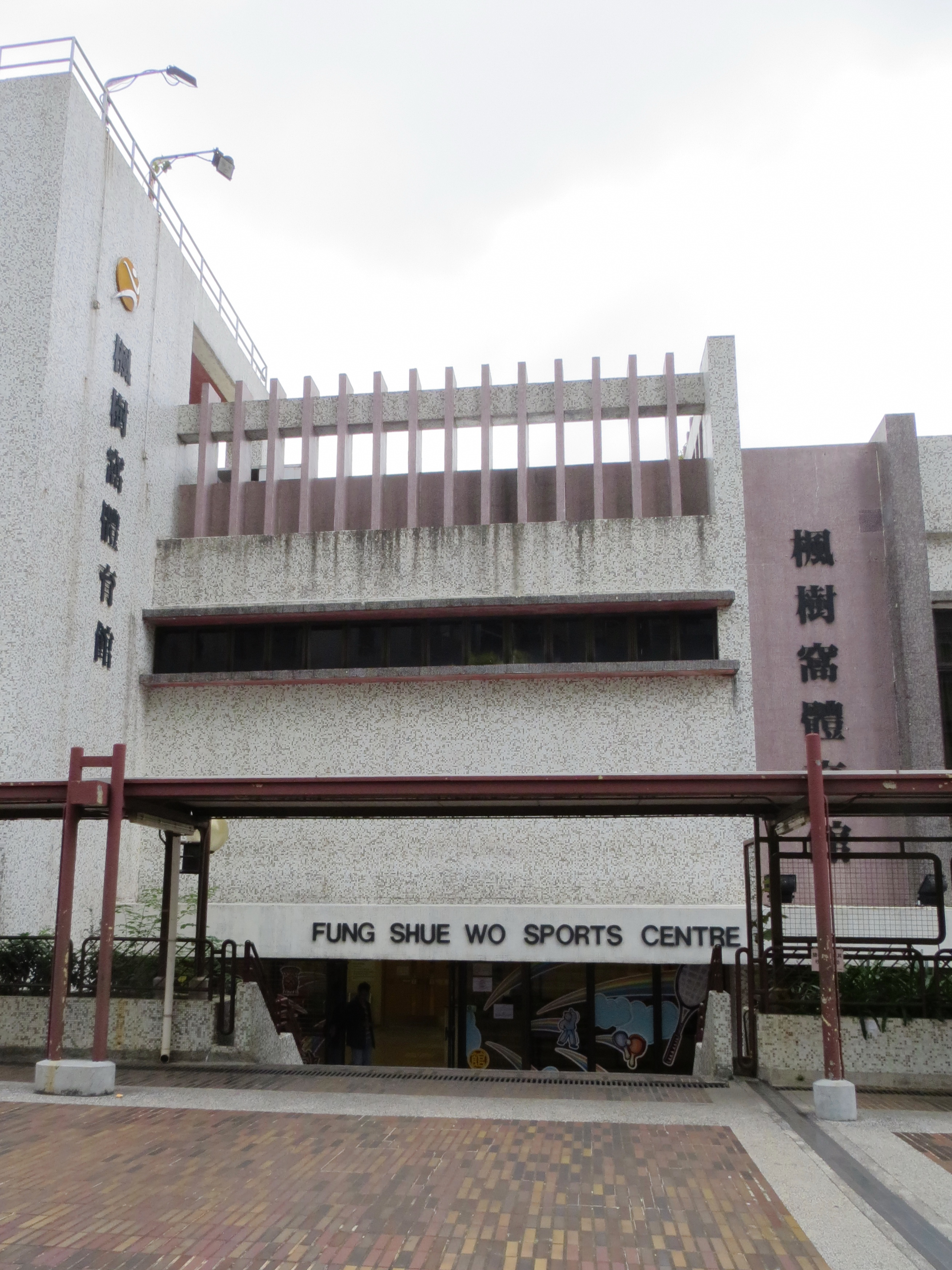 Fung Shue Wo Sports Centre, 1/F, 10 Fung Shue Wo Road, Tsing Yi Estate, Phase II, Tsing Yi, New Territories, Hong Kong.